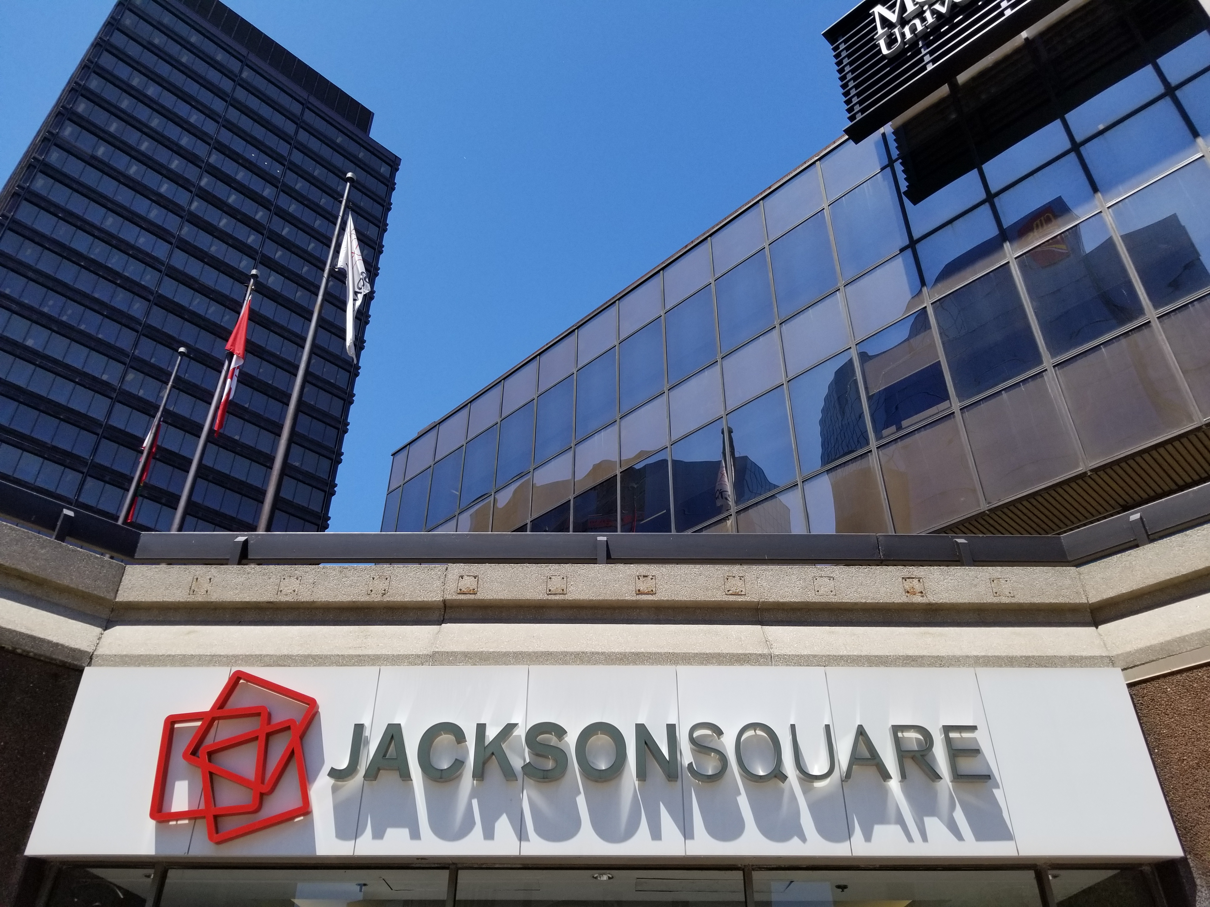 Jackson Square King Street and James Street entrance